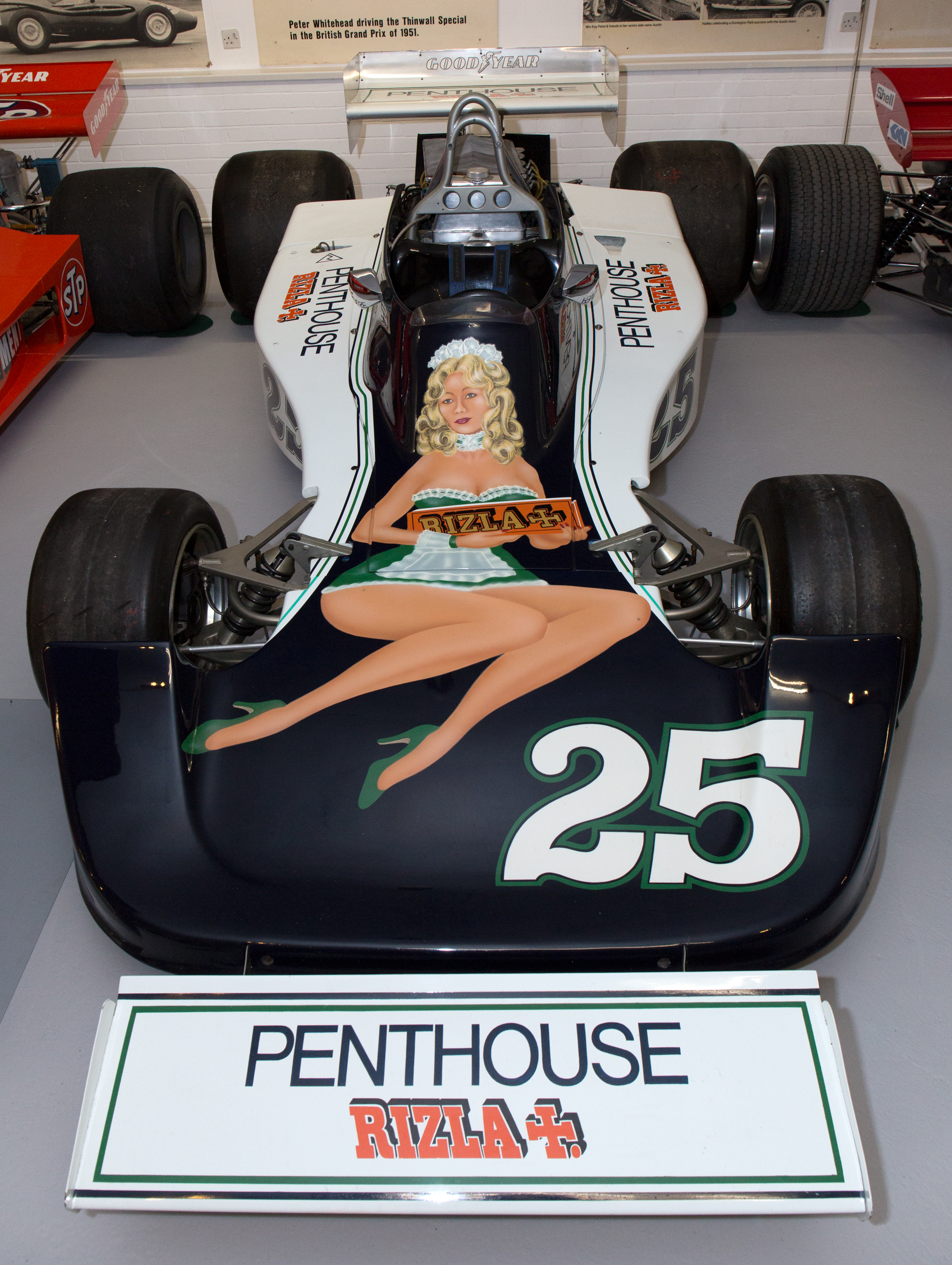 1976 Hesketh 308D